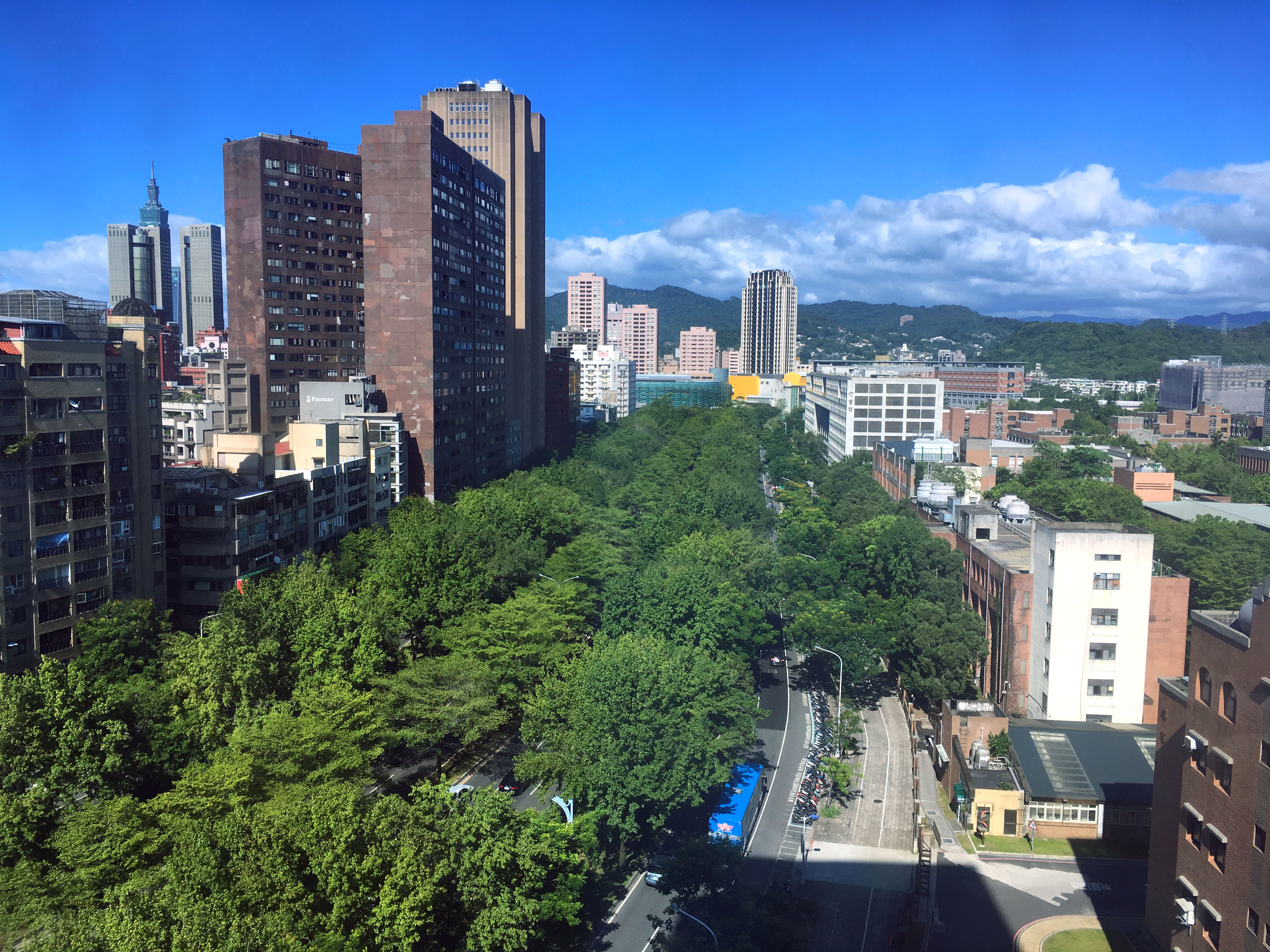 Section 2, Xinhai Road, National Taiwan University.